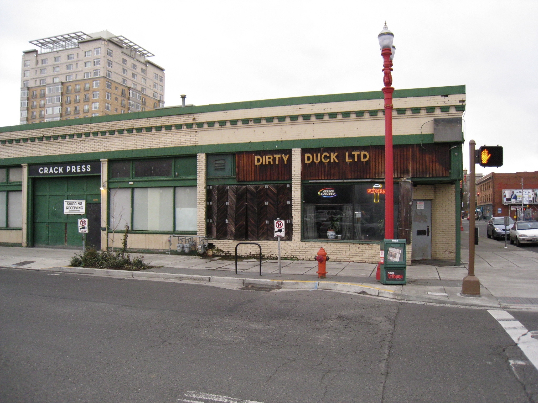 Crack Press is a great print shop owned/run by Pete McKracken in Old Town, Portland. Dirty Duck is about what you think it would be--a dive bar with lots of video lottery machines and twin peaks-ish characters.